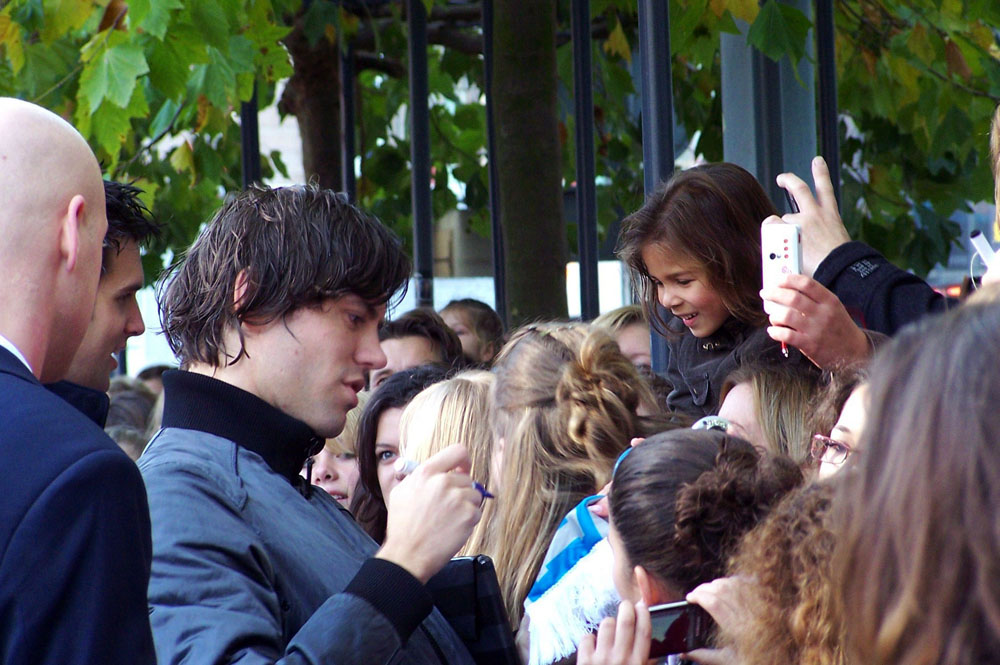 Dutch singer Simon Keizer during a performance in Amstelveen, The Netherlands.